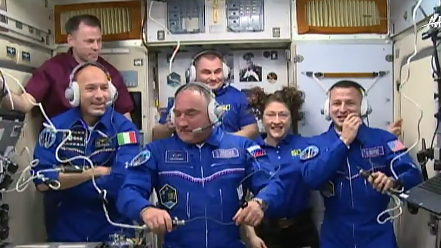 The expanded six-member Expedition 60 crew gathers in the Zvezda service module for a crew greeting ceremony with family, friends and mission officials on the ground. In the front row from left, are Flight Engineers Luca Parmitano, Alexander Skvortsov and Andrew Morgan. In the back are Flight Engineer Nick Hague, Commander Alexey Ovchinin and Flight Engineer Christina Koch.